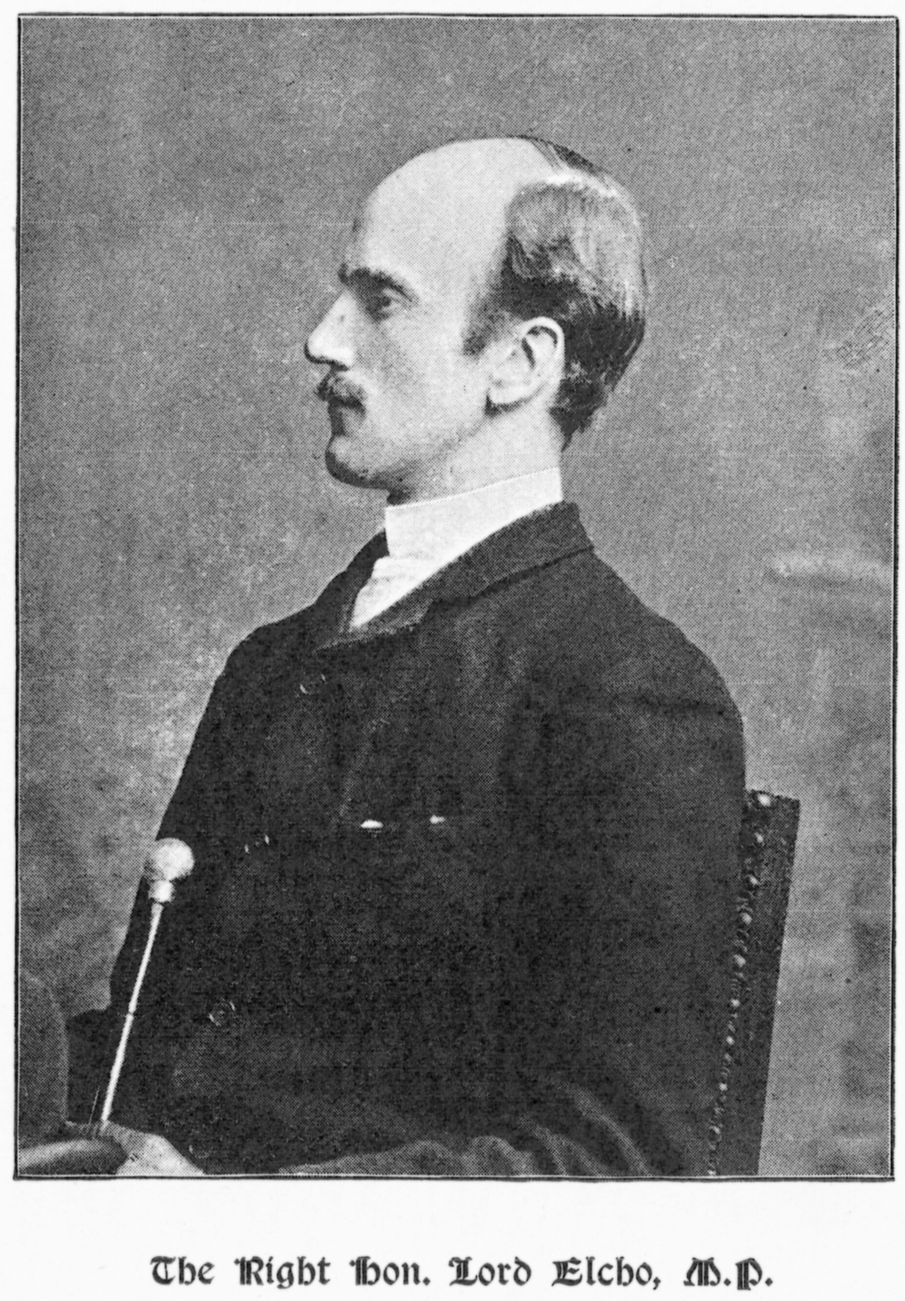 Portrait of Lord Elcho published August 1893 in Suffolk Celebrities